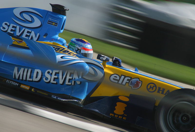 Giancarlo Fisichella driving for Renault F1 at the 2006 United States Grand Prix.